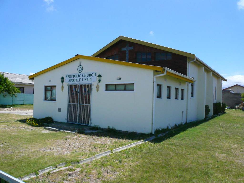 Apostolic Church, ZA, Capetown, Grassy Park